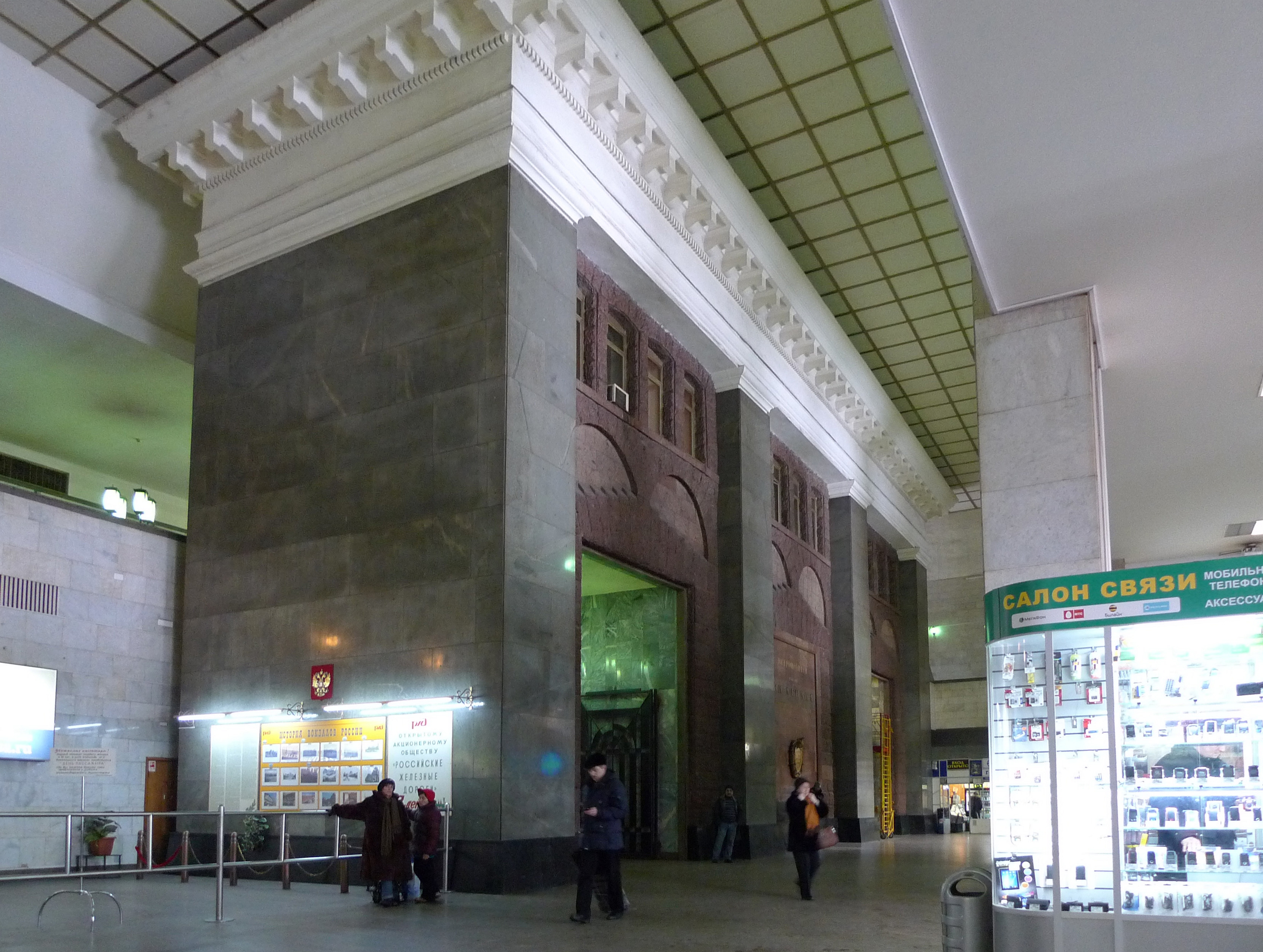 Moscow metro, south vestibule of station Paveletskaya (Zamoskvoretskaya Line). Build in 1943, since 1980's locate into the new Paveletskiy railway terminal building. Buildin Located into hall of Paveletskiy railway terminal.